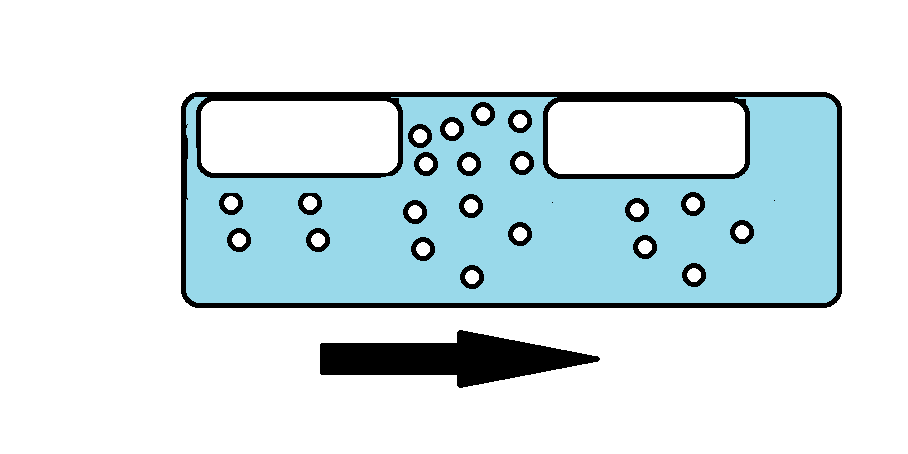 diagram of slug flow